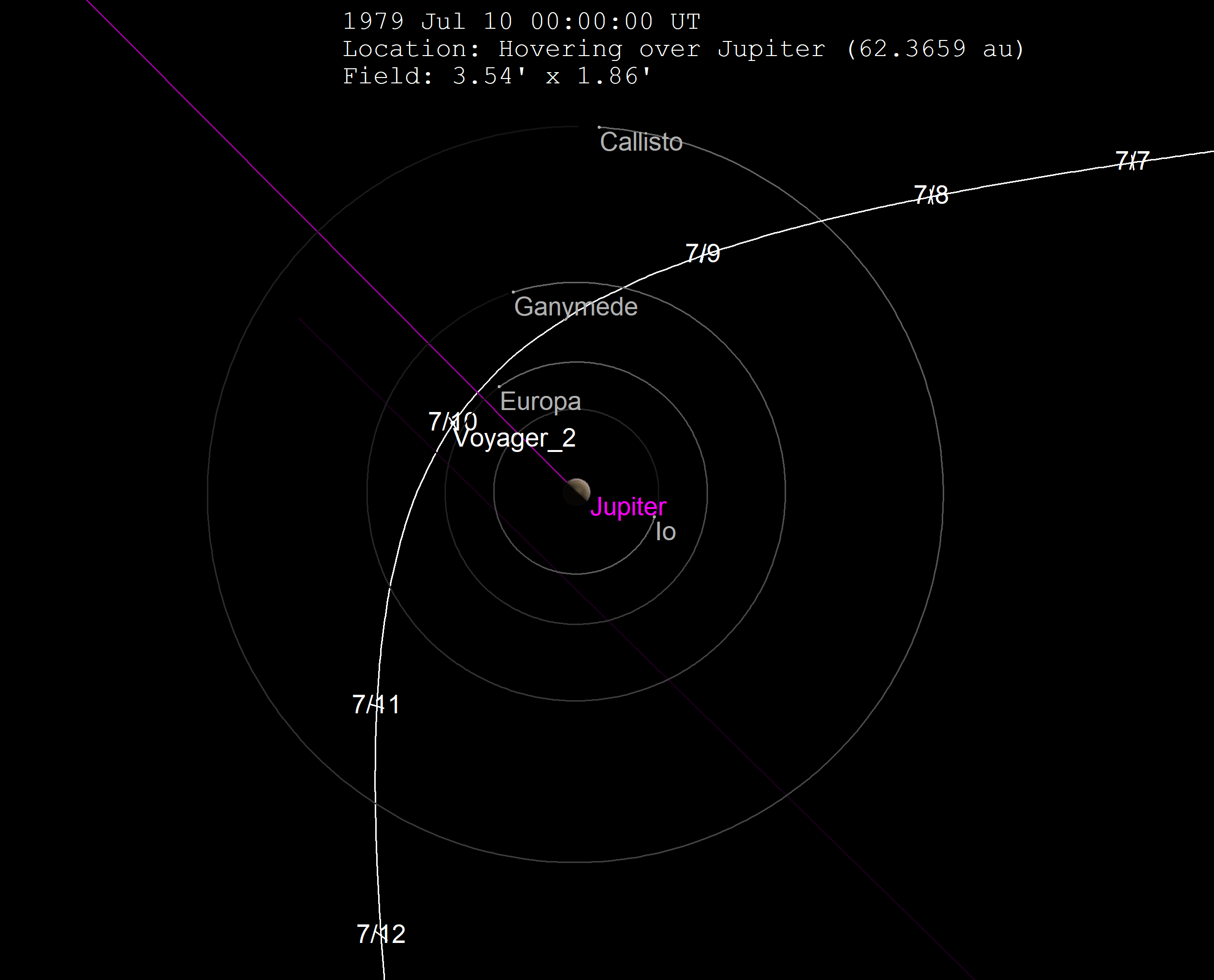 Voyager 2 flyby Jupiter, July 10, 1979, with daily motion